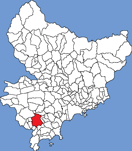 Localisation of Grasse in Alpes-Maritimes